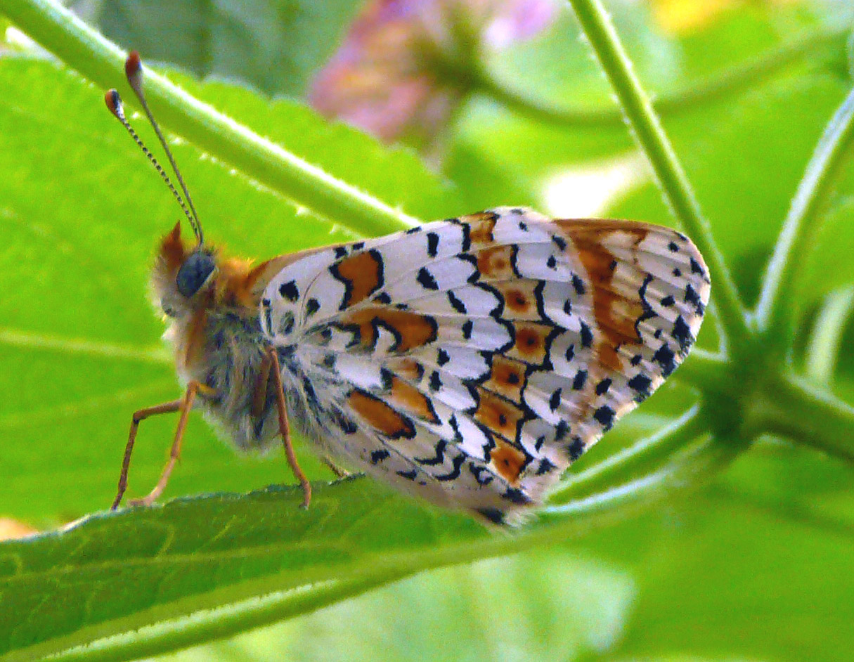 butterfly Glanville Fritillary latin :Melitaea cinxia(latin)